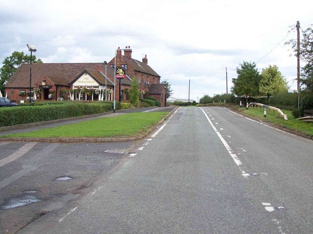 The Wheatsheaf, Wedges Mills Once a busy pub situated on the A460 from the M6 to Cannock, the pub is now in a cul-de-sac but has managed to retain a good following.